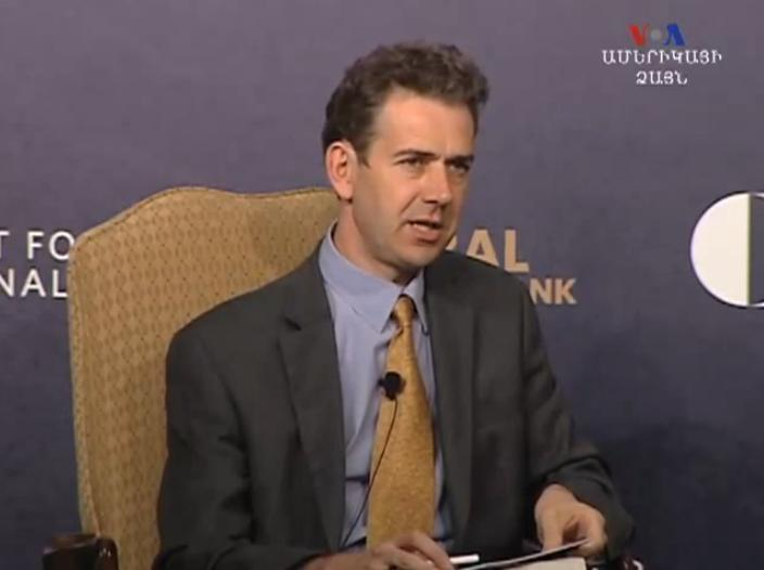 Launching the tenth anniversary edition of Tom de Waal's "Black Garden: Armenia and Azerbaijan Through Peace and War" at Carnegie Endowment in Washington DC, June 20, 2013.